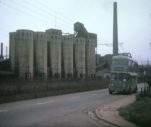 Tees-side trolleybus near South Bank Sunbeam F4 trolleybus 4 (GAJ 14) on a private tour in Middlesbrough Road East with the Dorman Long's Cleveland Iron Works in the background. This has since disappeared and the A66 trunk road crosses near this location.